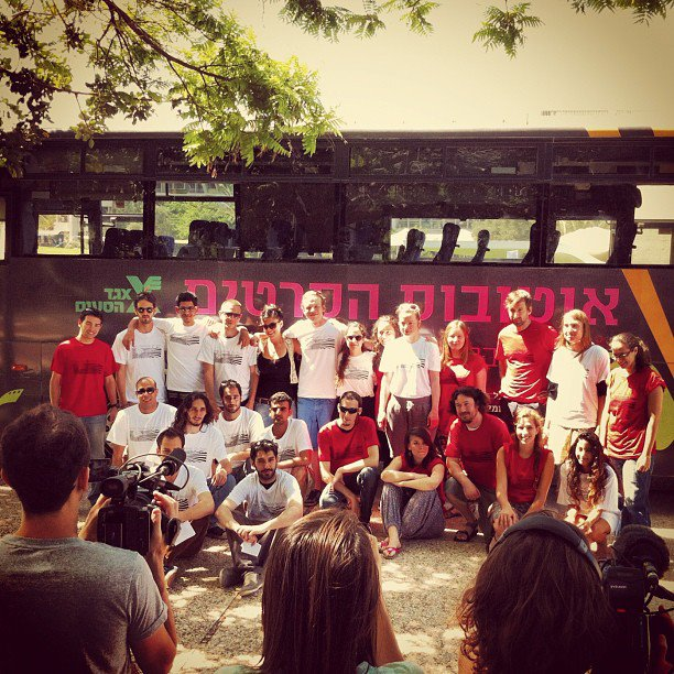 Student Bus 2012 TASFF